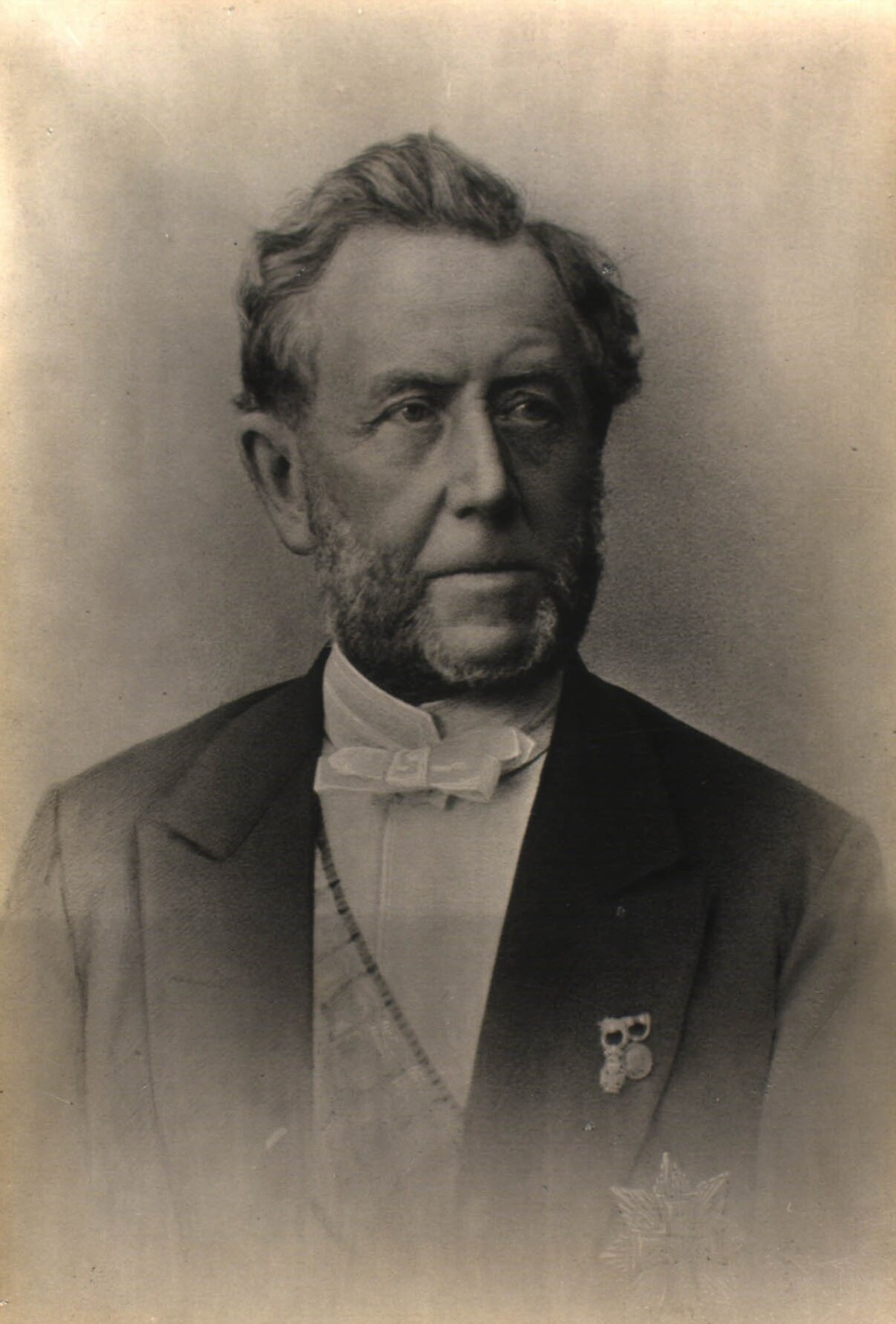 Eugenius Sophus Ernst Heltzen (1818-1898), Danish jurist, Justice Minister, Minister of Ecclesiastical Affairs, and district officer